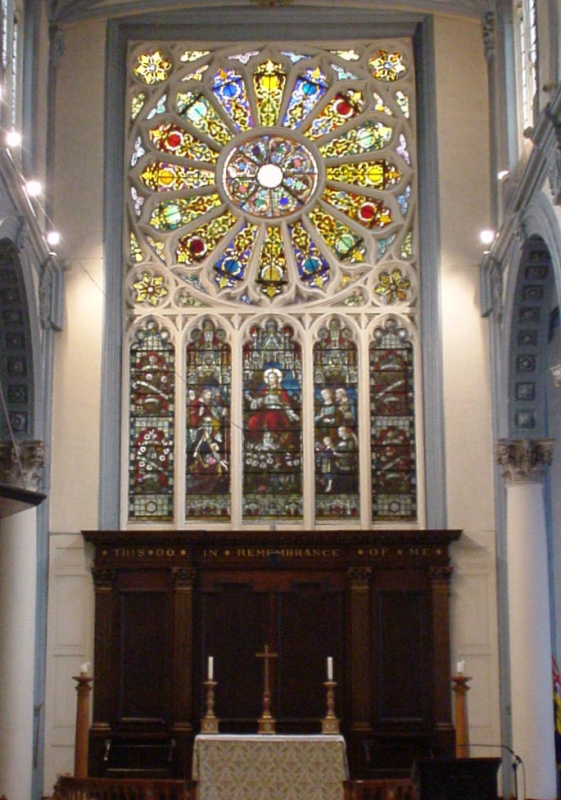 Altar and east window of St Katherine Cree parish church, Leadenhall Street, London